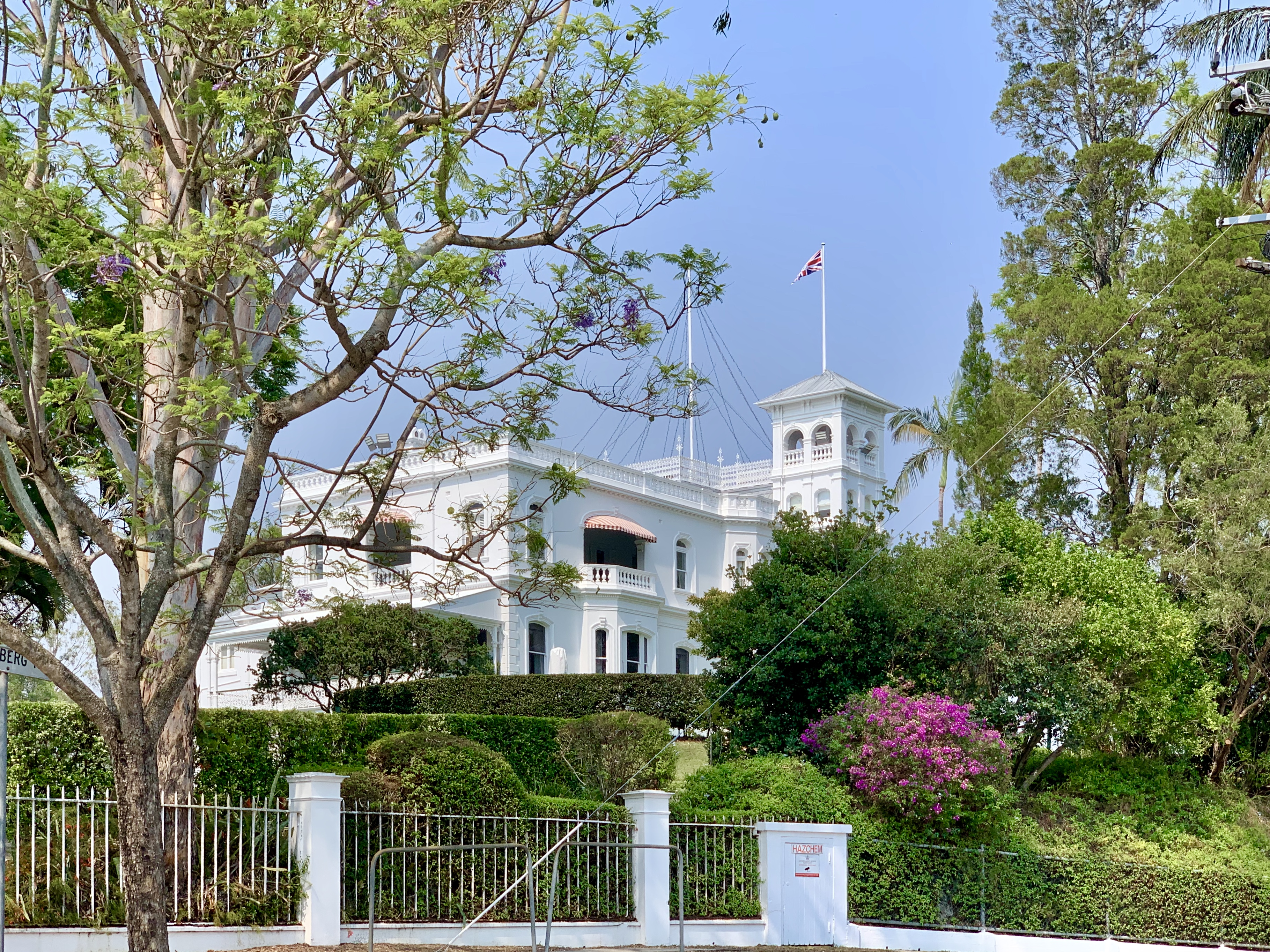 Government House seen from street, Brisbane, Queensland, 2019